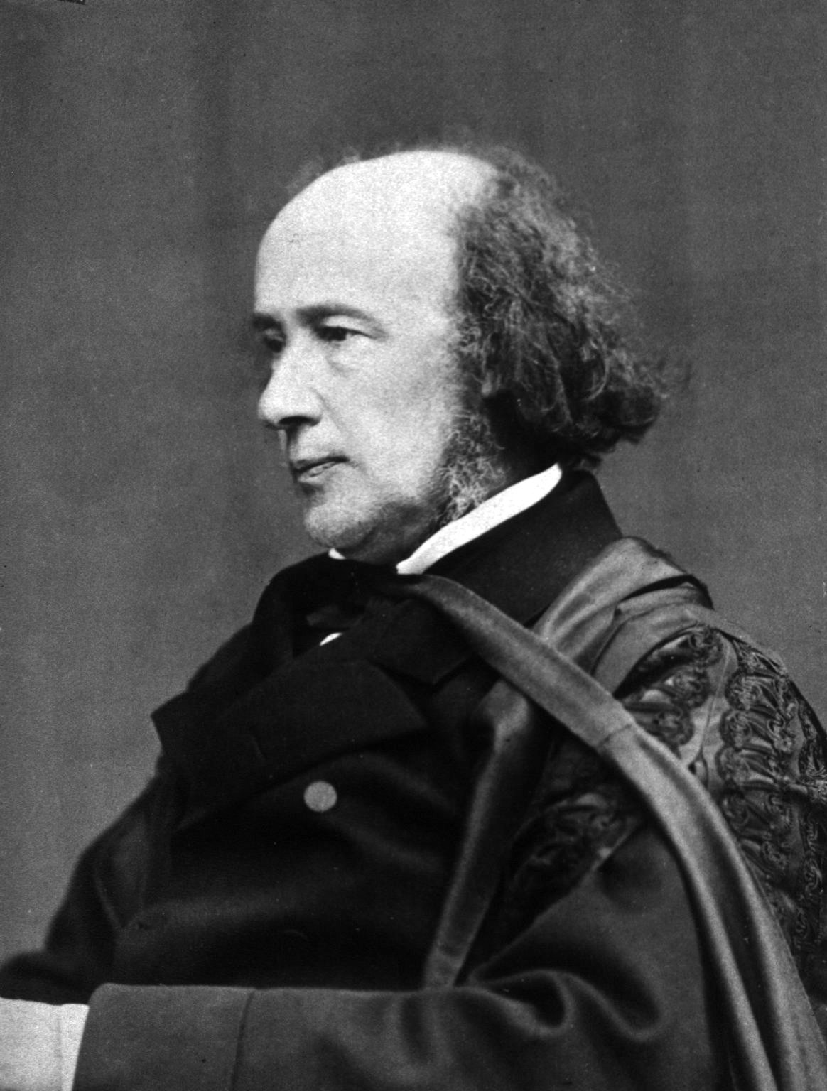 Sir Henry Wentworth Dyke Acland, 1st Baronet, British physician and educator